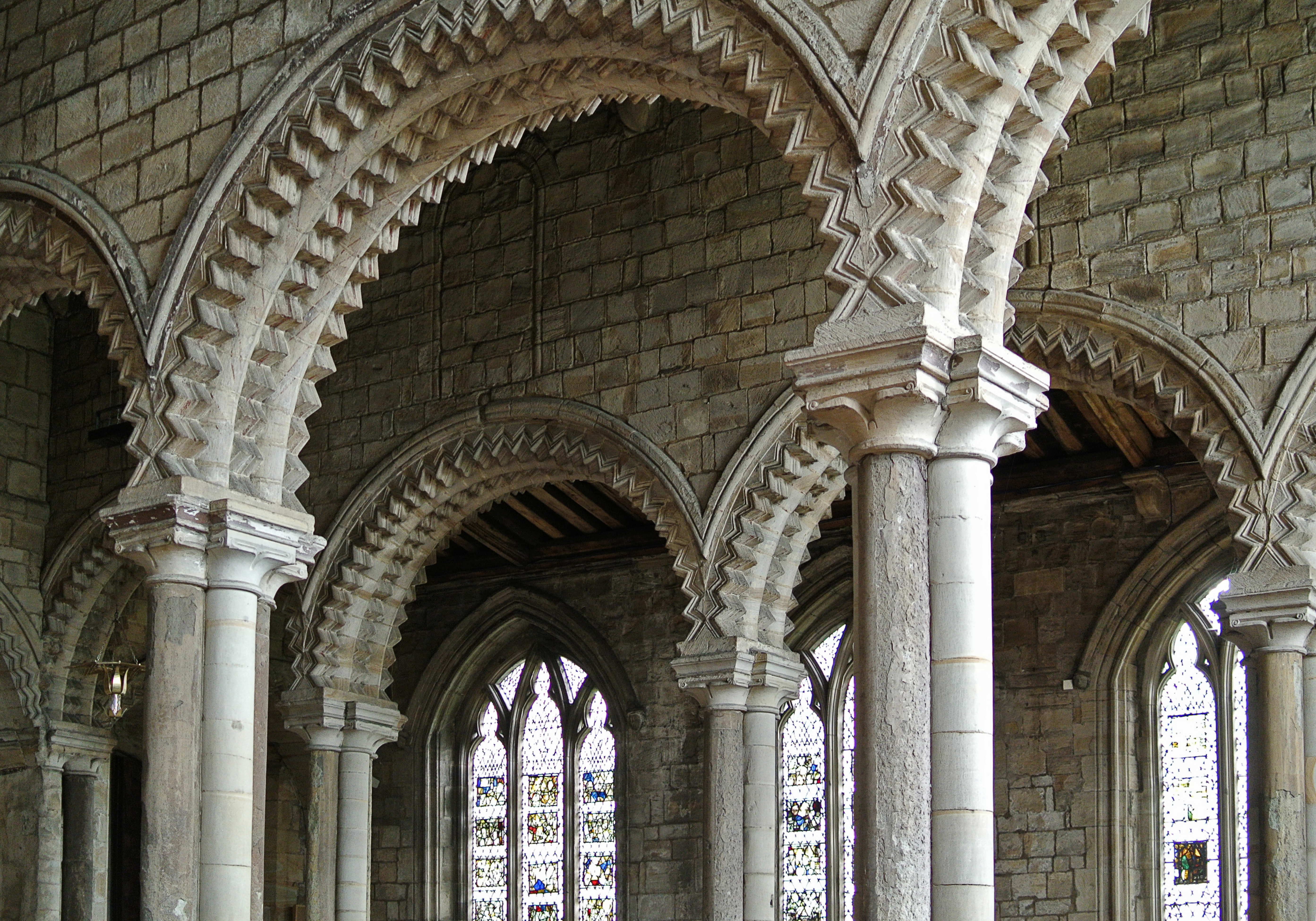 Chapter house of Durham Cathedral.